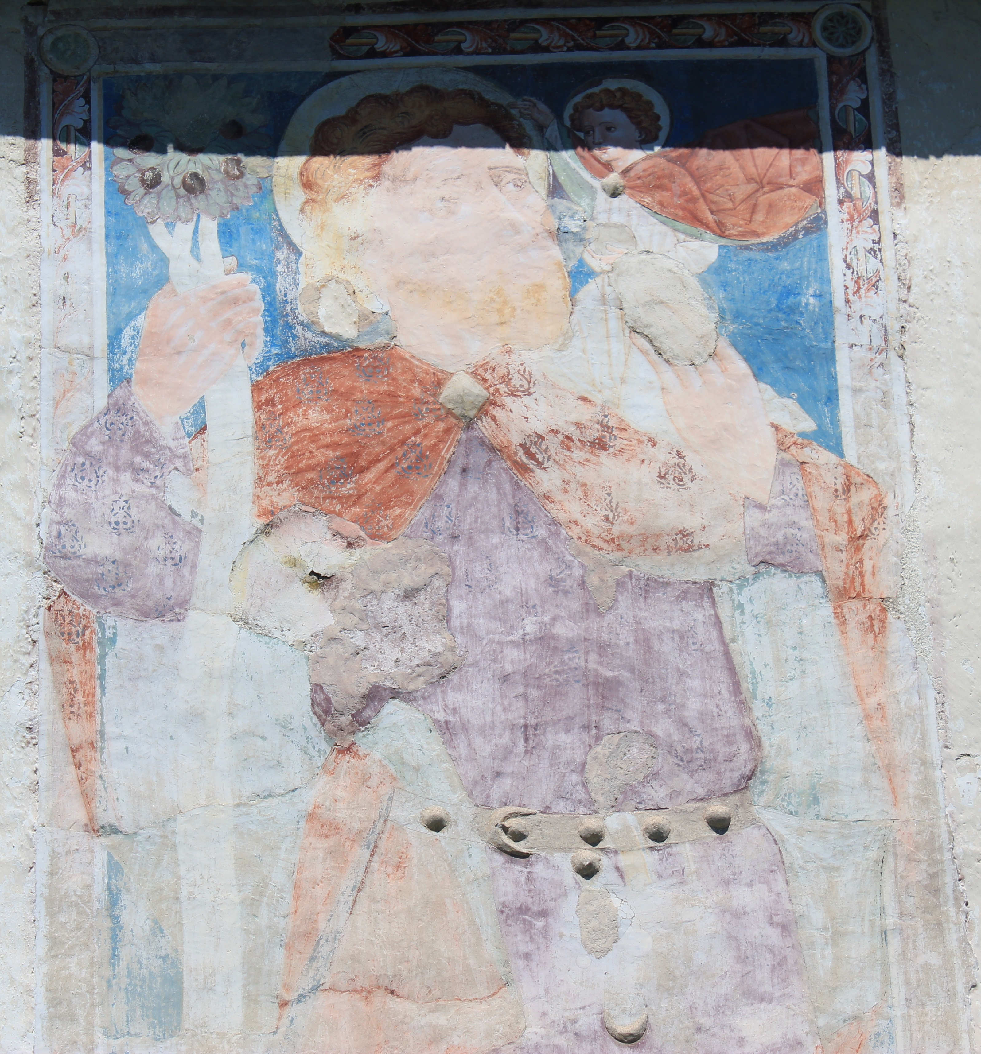 Parish church in Feitritz ob Grades in the community of Metnitz - Saint Christopher